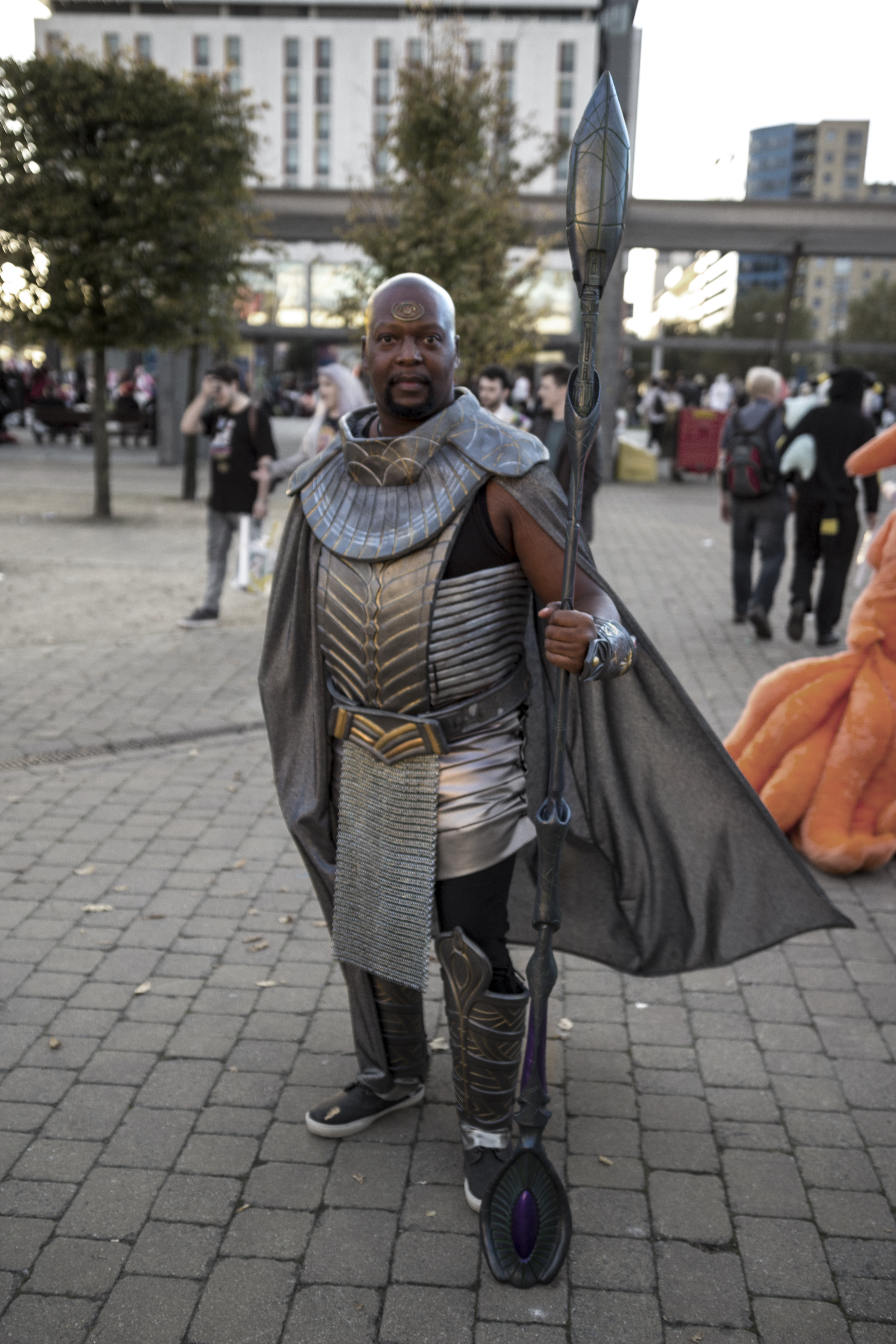 MCM Comic Con ExCel London October 2014 Cosplay Cosplay at the October 2014 MCM London Comic Con.